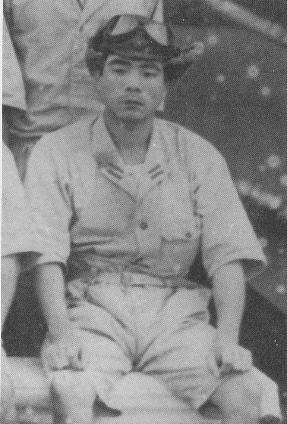 Imperial Japanese Navy fighter ace Masaichi Kondō. In service in the Sino-Japanese and Pacific wars, he was credited with destroying 13 enemy aircraft. This photo of Kondō was taken while he was serving on the carrier Jun'yō in January 1943.